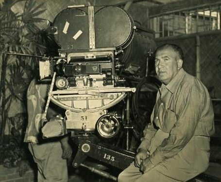 director Edward Ludwig on the set of Big Jim McLain - publicity still (original image cropped : see source)